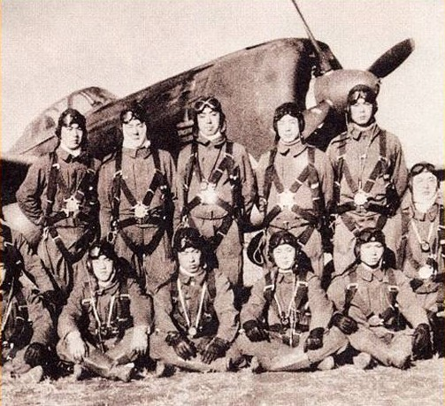 A group of pilots of a Shimbu unit with their Nakajima Ki-84